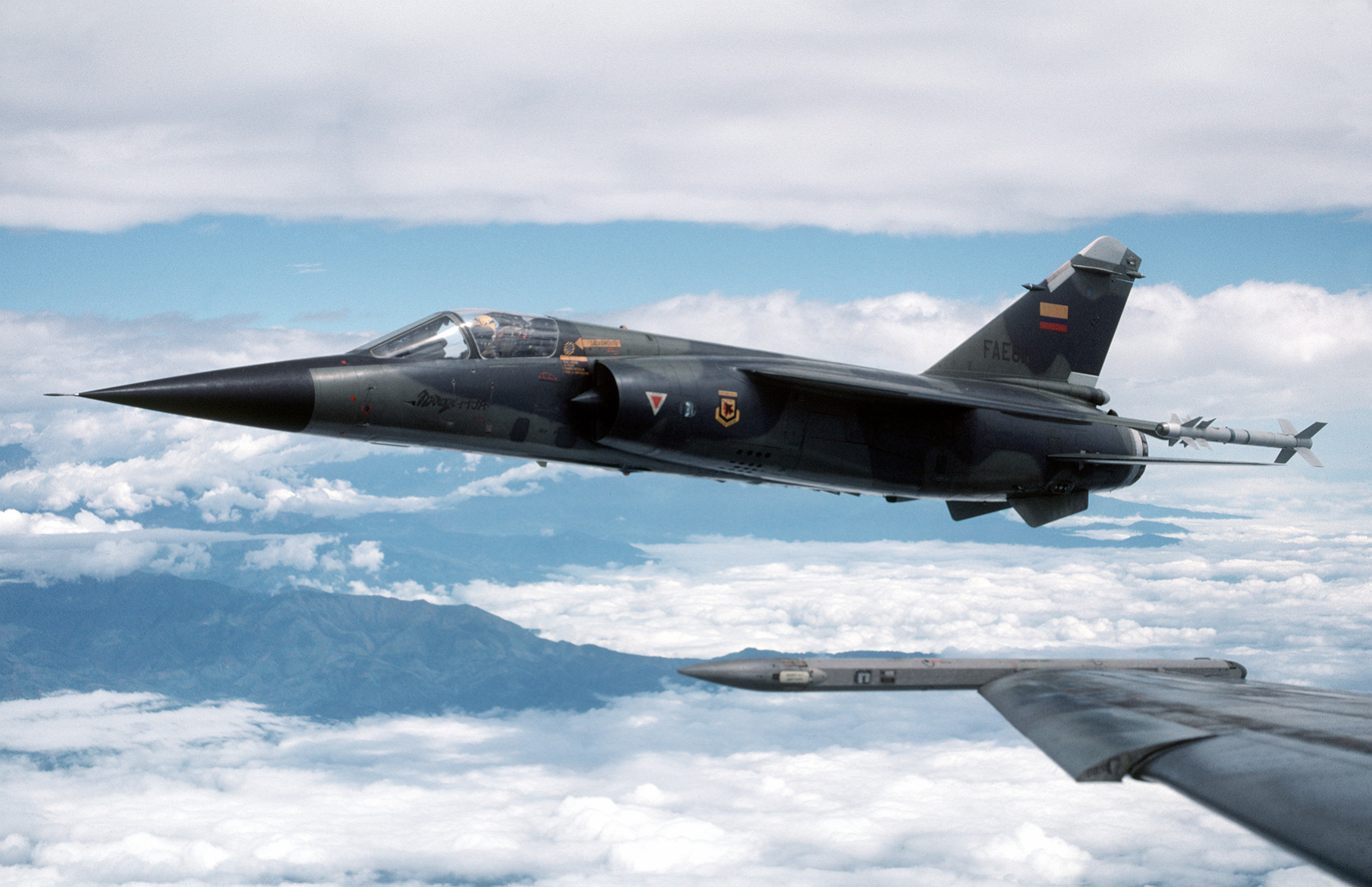 An Ecuadoran air force Dassault Mirage F1E aircraft flies beside another aircraft during the joint Ecuadoran/U.S. exercise "Blue Horizon '86" on 9 September 1986. The Mirage is armed with an R-550 Magic 2 air-to-air missile on its port wing tip.